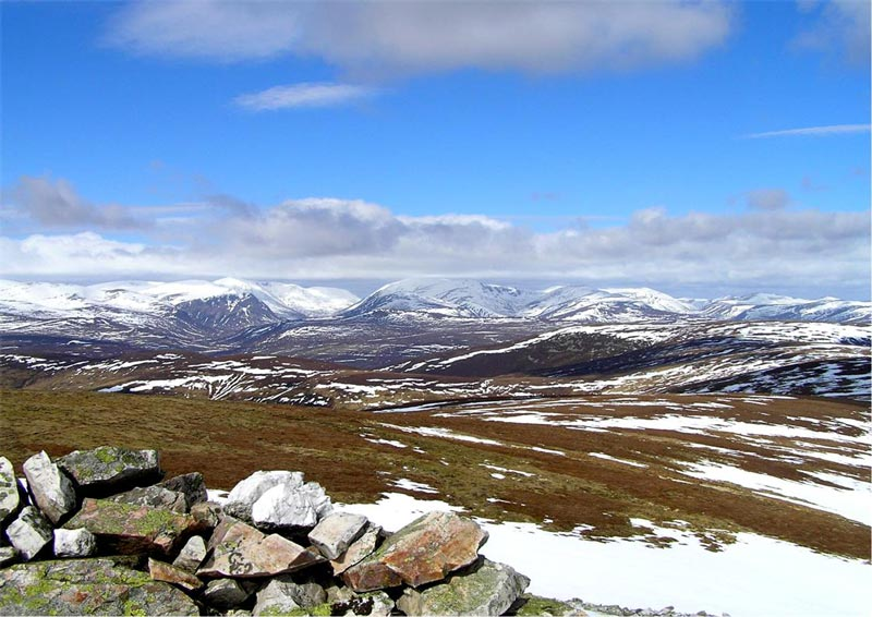 This photograph taken by Joe Dorward on 02APR08 shows The Cairngorms taken from Geal Charn in The Grampains